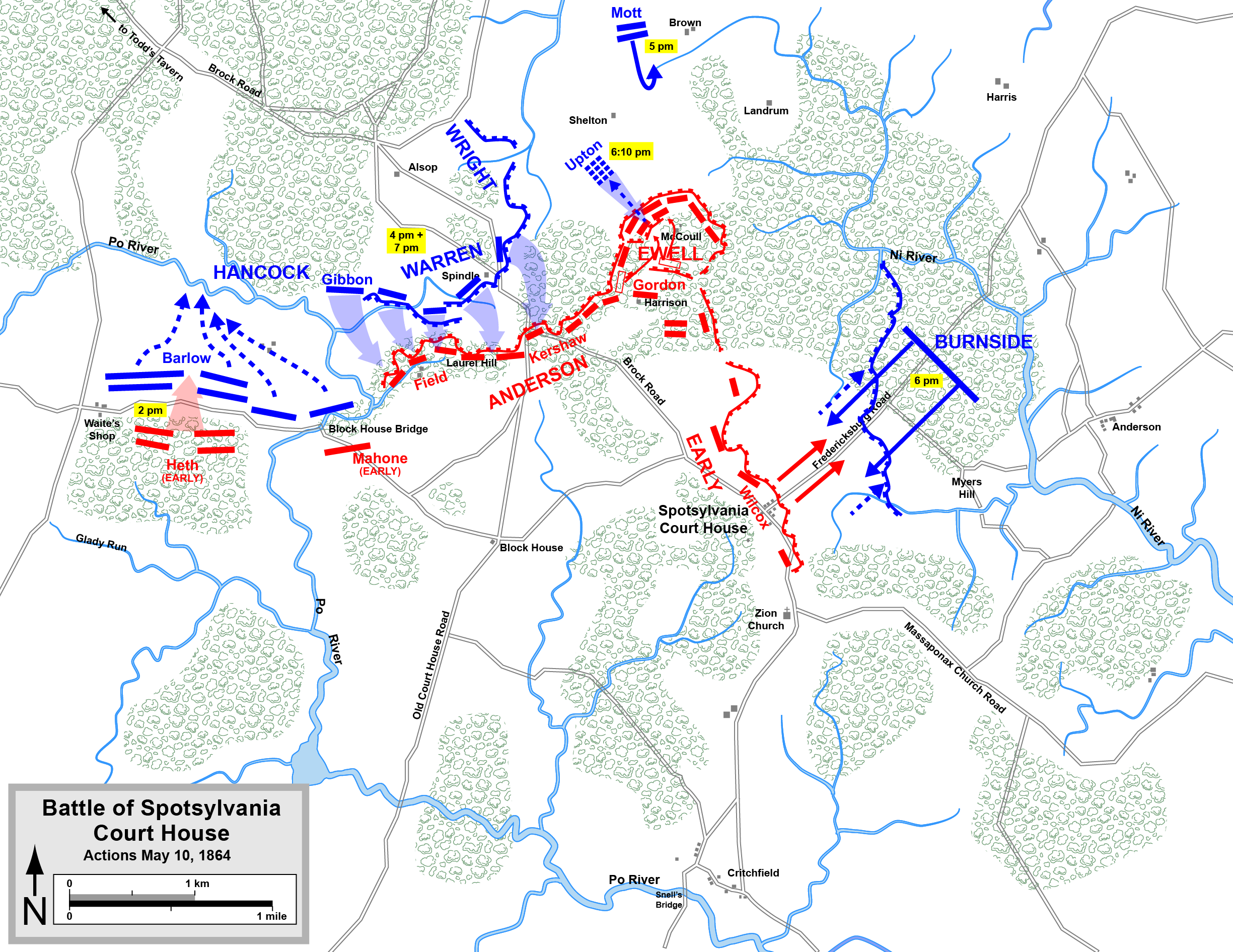 One of a series of seven maps depicting the Battle of Spotsylvania Court House of the American Civil War. Drawn by Hal Jespersen in Adobe Illustrator CS5. Graphic source file is available at Attribution: Map by Hal Jespersen